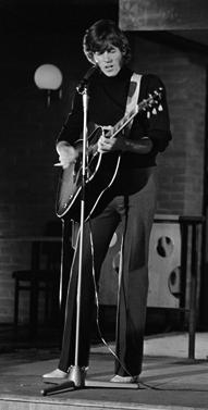 The Bee Gees in Dutch television show Twien (1968)